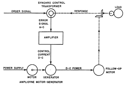 Amplidyne circuit From historical U.S. Navy manual, NAVAL ORDNANCE AND GUNNERY, VOLUME 1 CHAPTER 10 AUTOMATIC CONTROL EQUIPMENT This is figure 10D1.